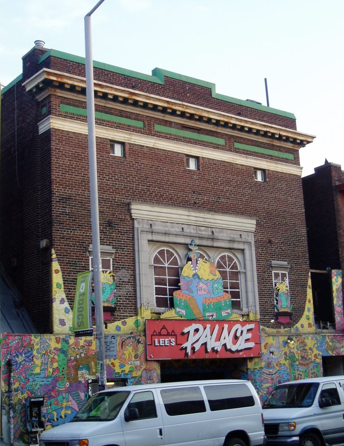 Lee's Palace in Toronto, Ontario, Canada. Taken by SimonP in April 2005